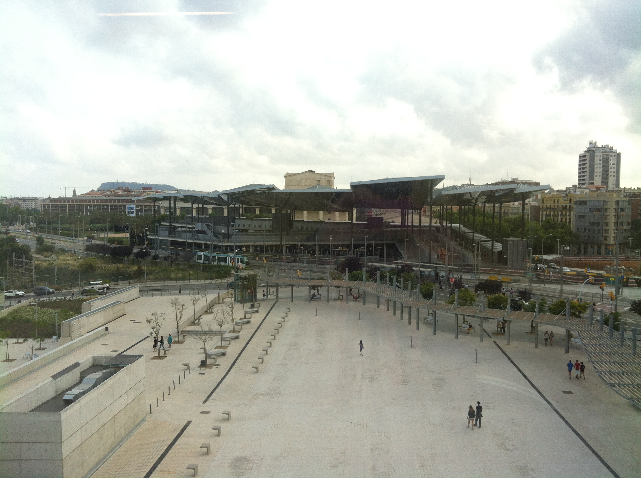 Nous encants building in Barcelona